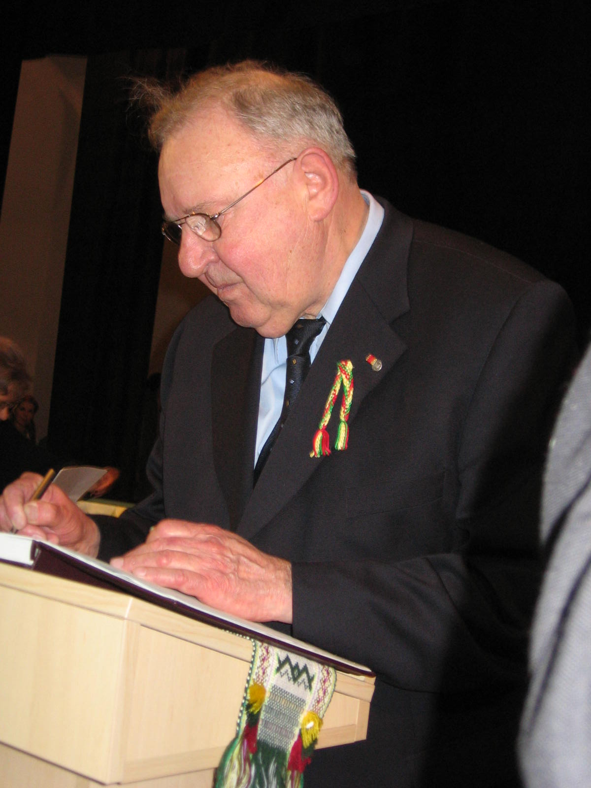 Verneris Kiupelis išrinktas Pagėgių krašto metų žmogumi